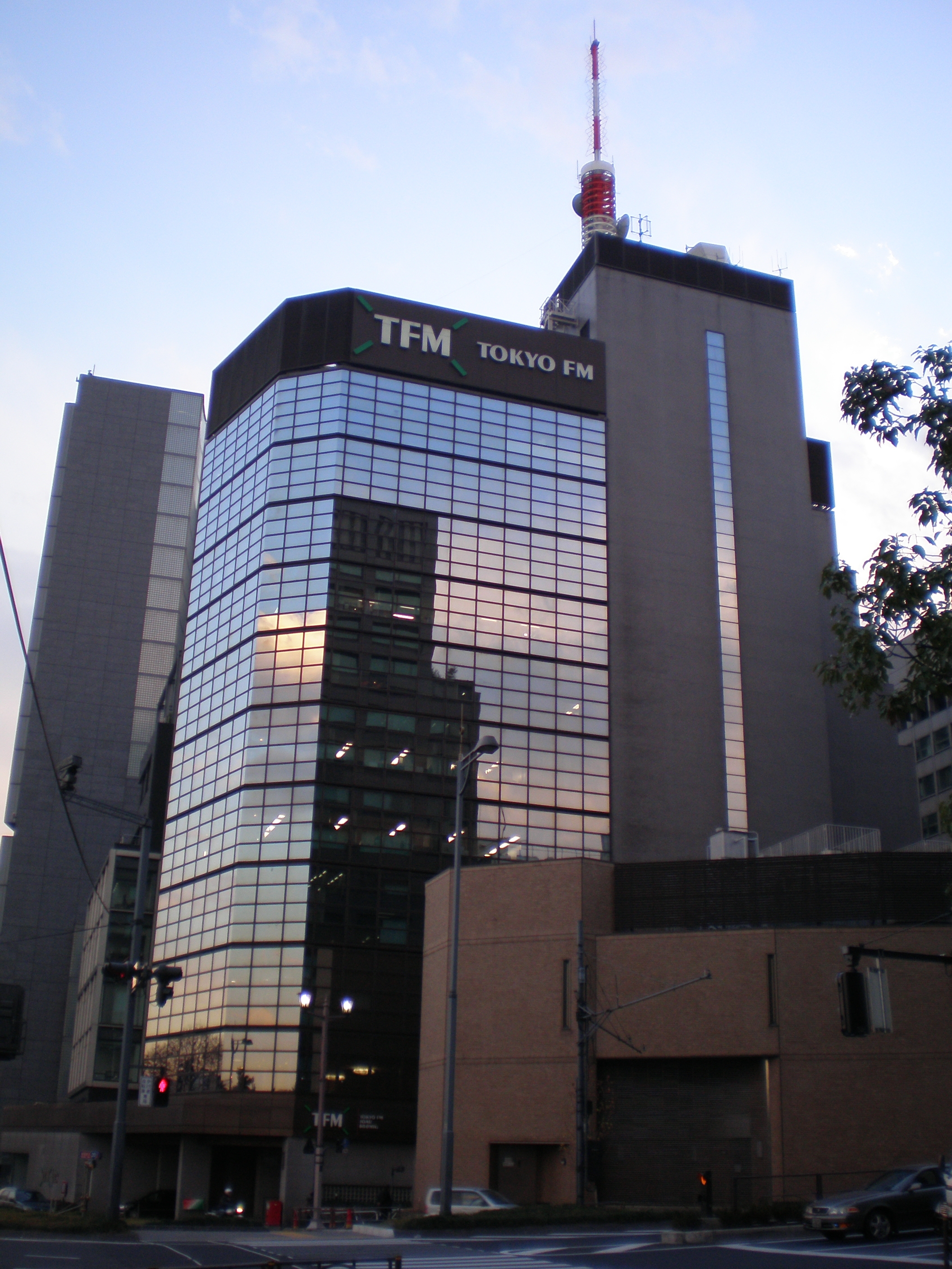 Tokyo FM Broadcasting Headquarter in Hanzomon, Tokyo.